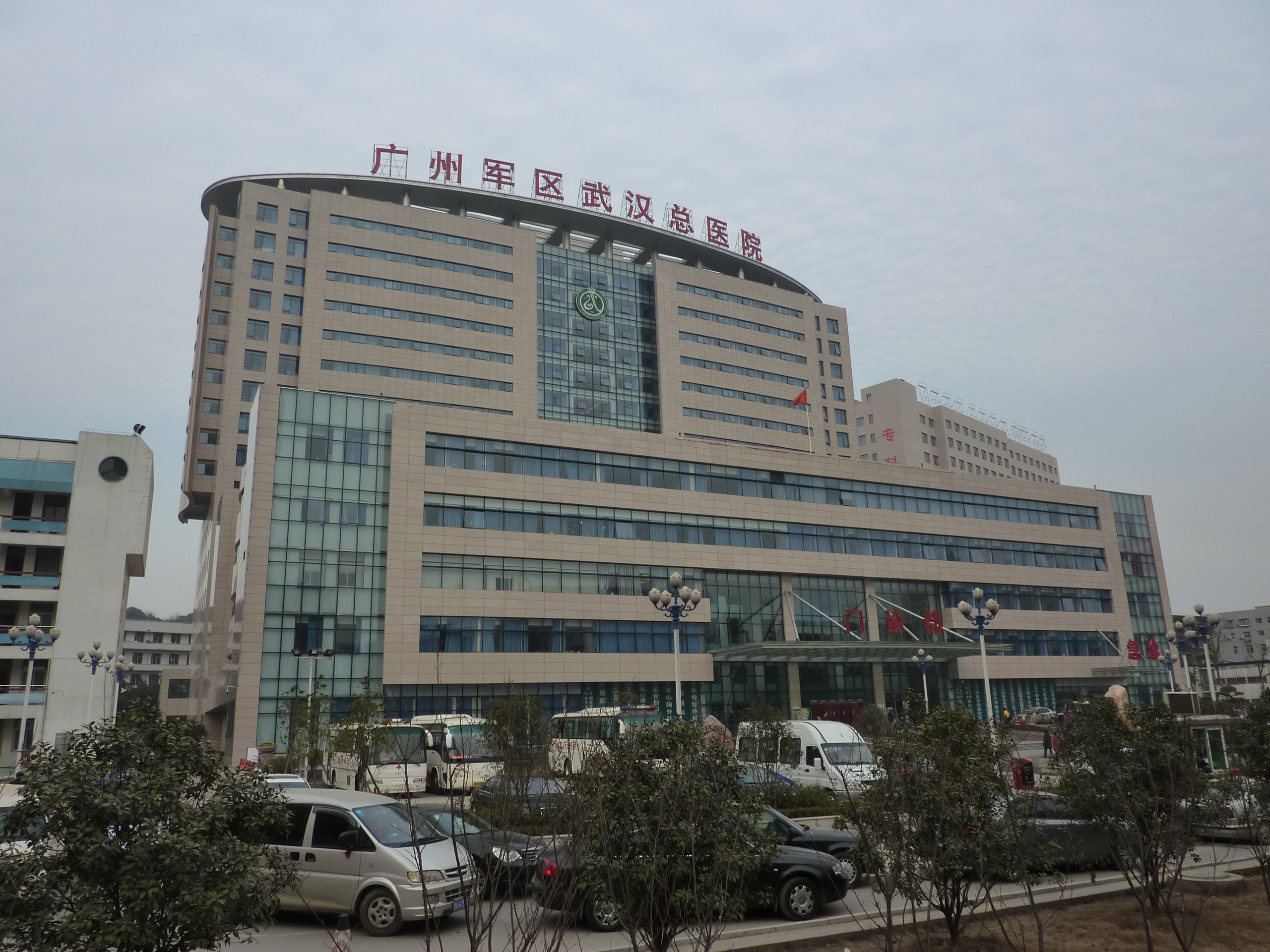 The Wuhan Main Hospital of the Guangzhou Military District. Located in Wuluo St, a few blocks east of Zhongnan St.